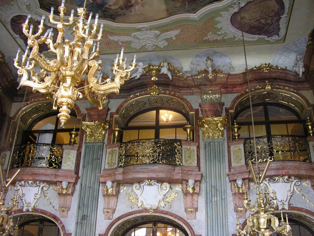 Maxililian's hall-balconies (Ksiaz)